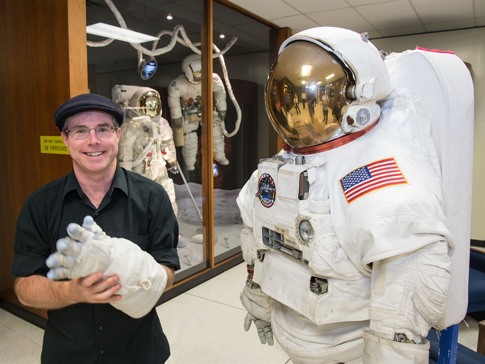 Andy Weir made a special appearance during Mars Week 2015 at Johnson Space Center.